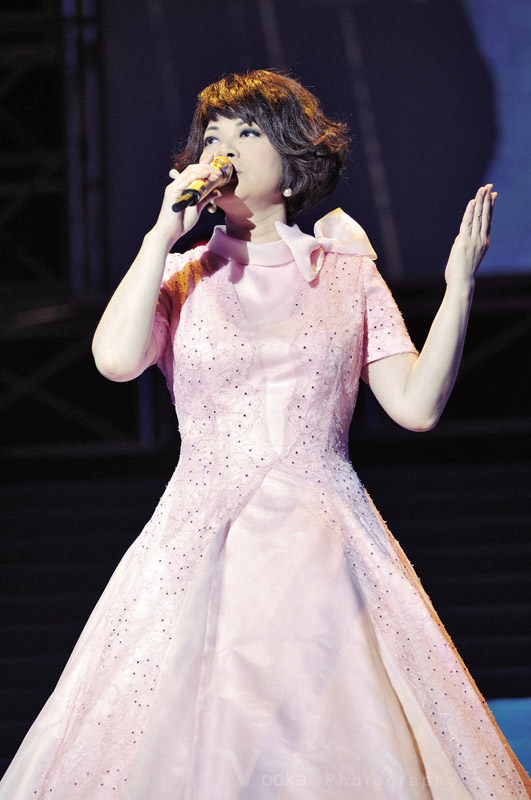 Tsai Chin - The New Endless LoveBân-lâm-gú: Tshuà Khîm - Sin Put-liáu-tsîng. 蔡琴-新不了情